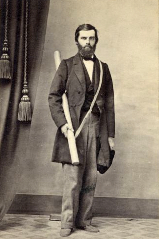 Charles Christopher Parry